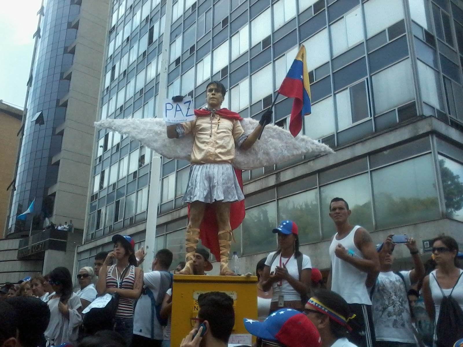 A protester holding a sign saying "Peace" and a Venezuelan flag the February 18, among other opposition protesters.